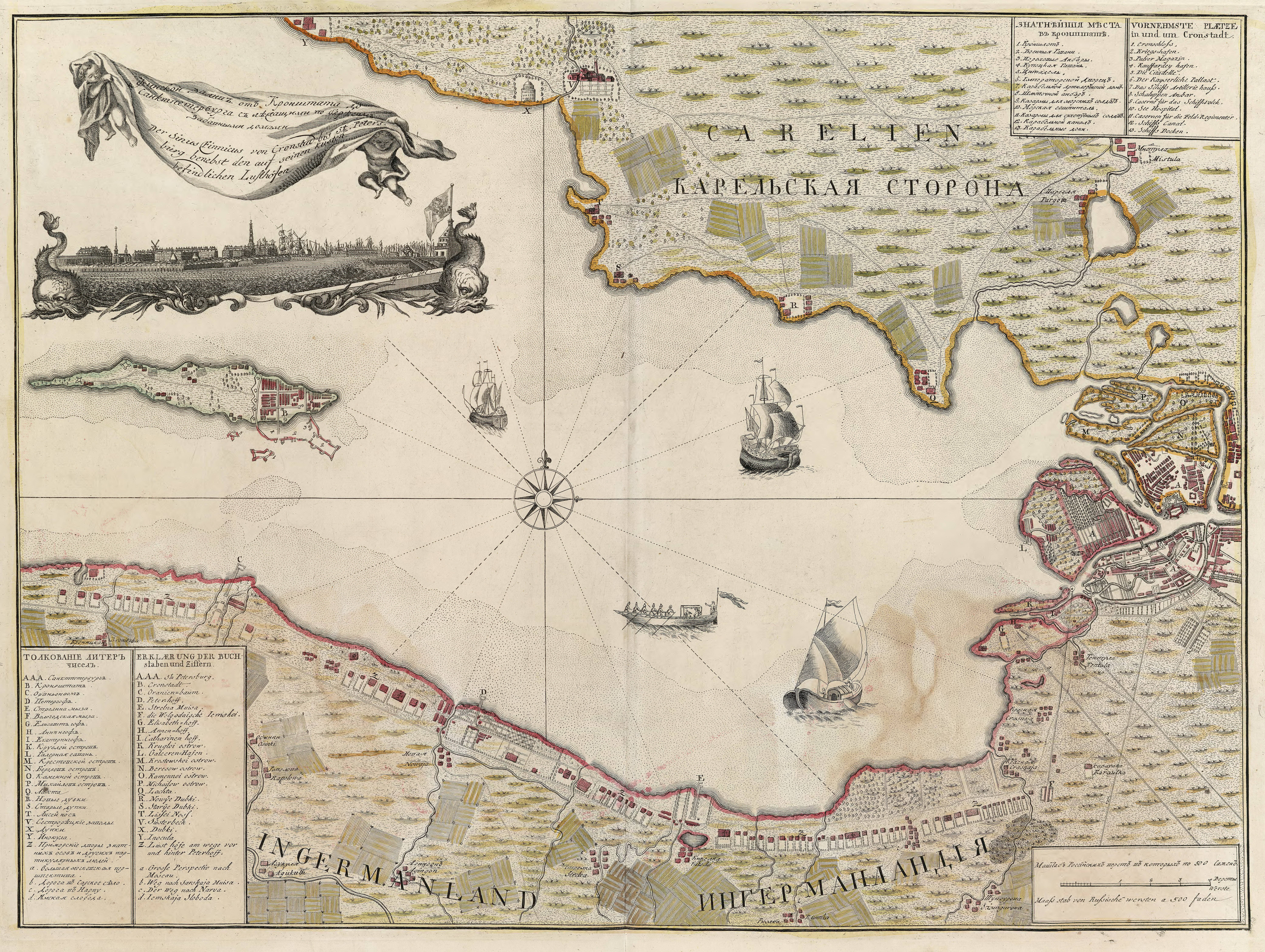 Map of Gulf of Finland from Kronstadt to St. Petersburg in first half of XVIII century. In Russian and Deutsch.